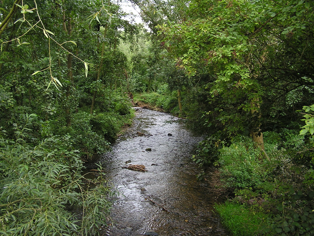 The Erlenbach, tributary of the Nidda, between two districts of Bad Homburg and Frankfurt.